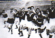 This is the Team of Entente Sportive Franco-Musulmane Guelma, le last winner of Louis Rivet Challenge, the North African Championship in 1955.